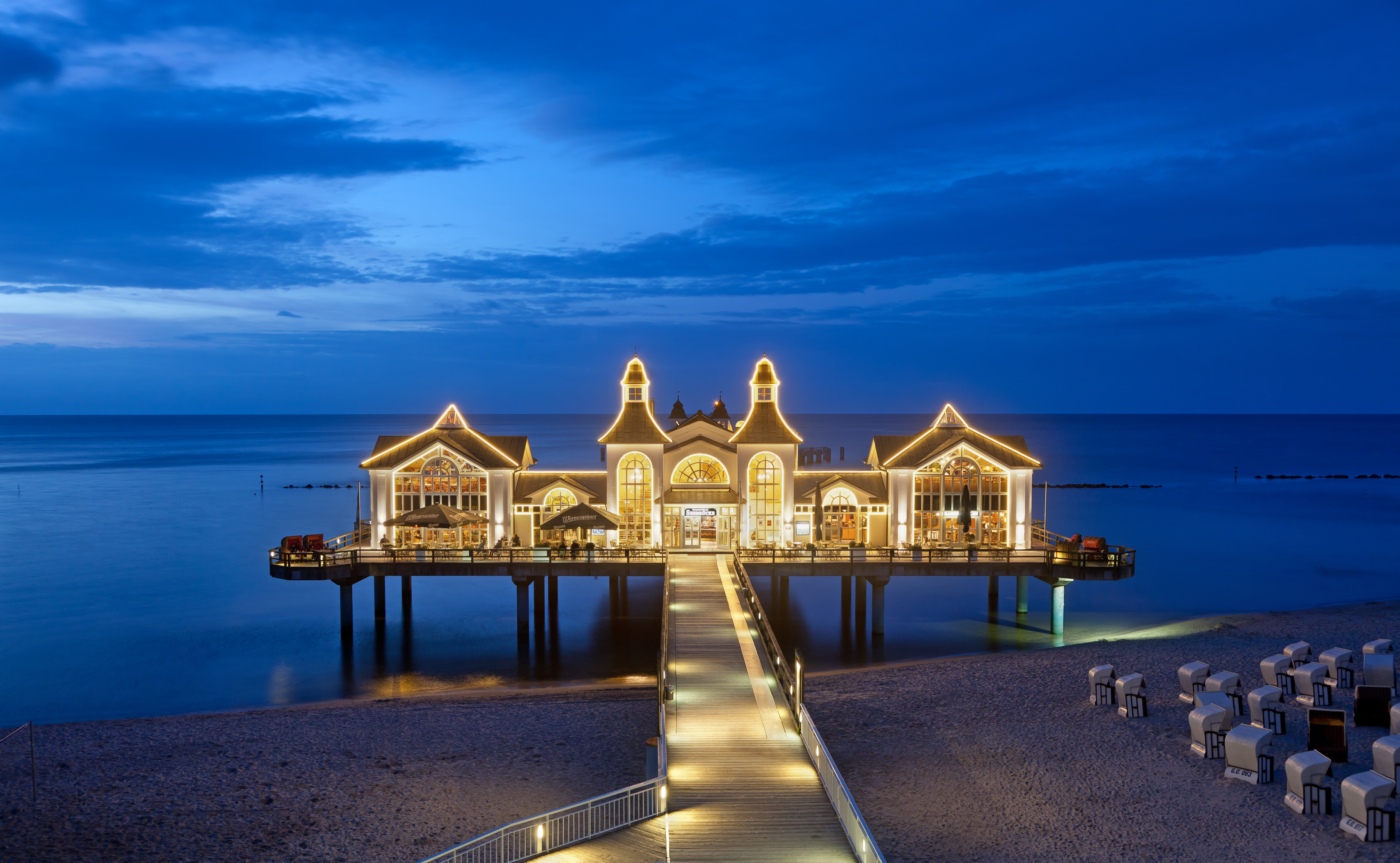 Sellin Pier